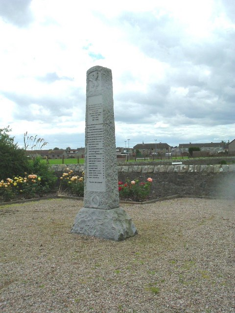 Crimond War Memorial, outside the village church, Crimond, Scotland.